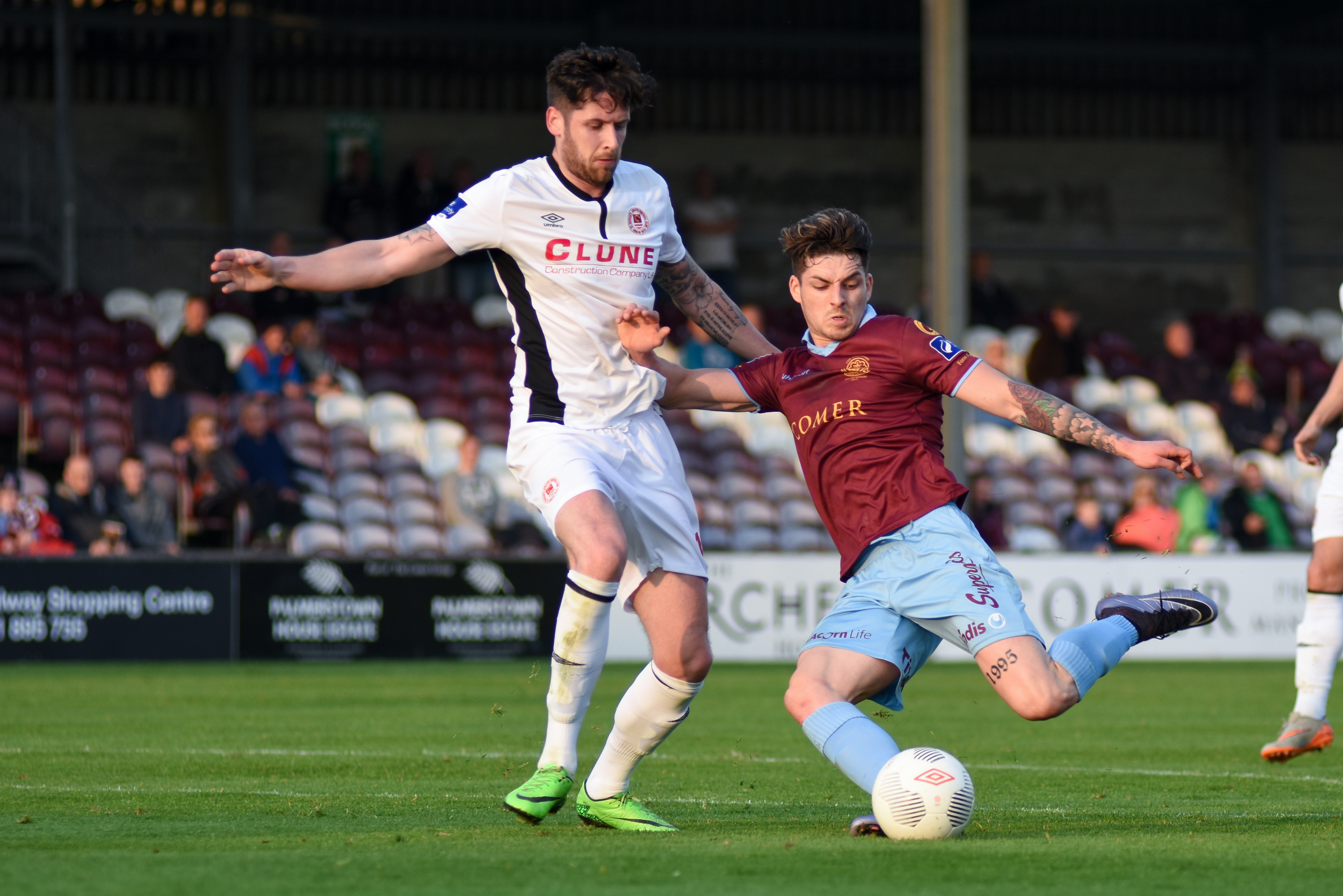 10/05/2016 Galway United v St. Patrick's Athletic. Darren Dennehy (St. Patrick's Athletic) and Ruairi Keating (Galway United) in action in the 2016 League of Ireland